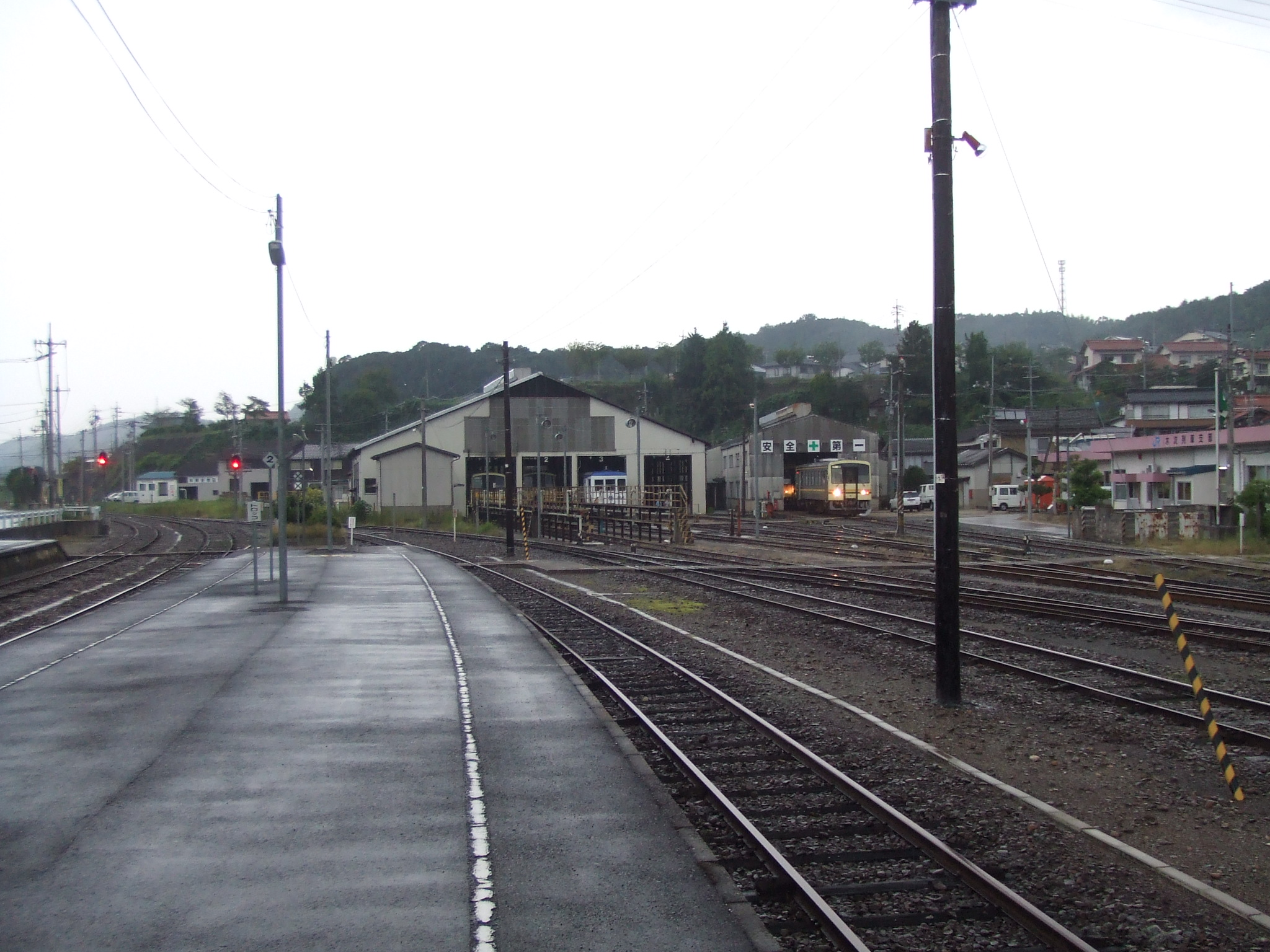 Sidings at Kisuki Station